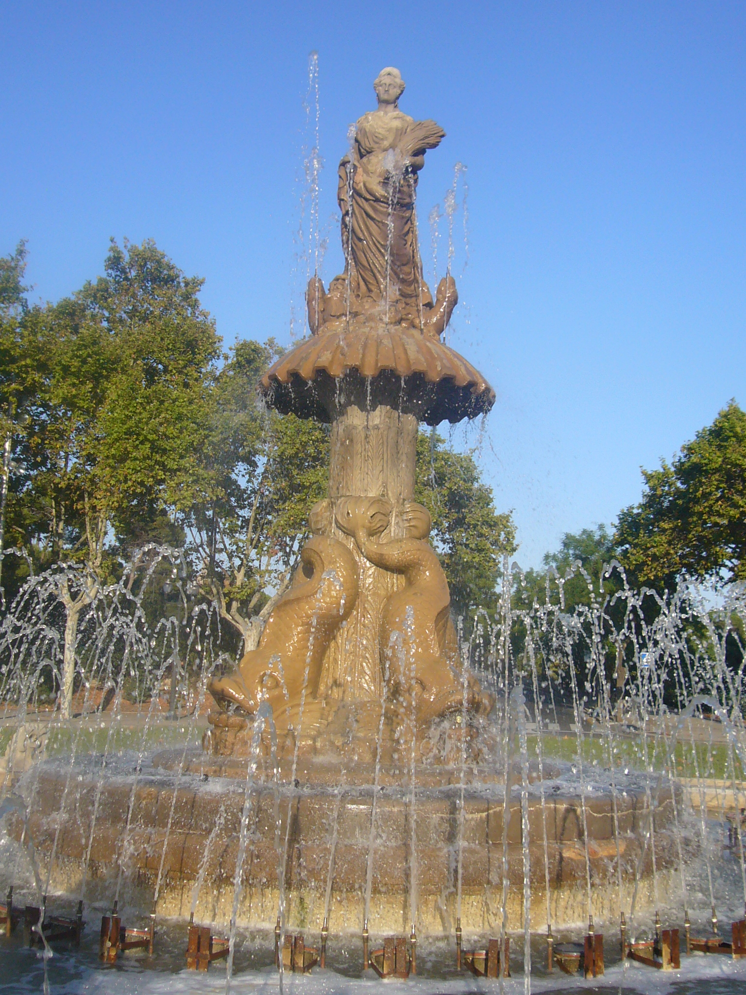 Font de Ceres Mirador de Llobregat. Montjuic, Barcelona. Obra de Celdoni Guixà i Alsina (Igualada, 1787-1848)